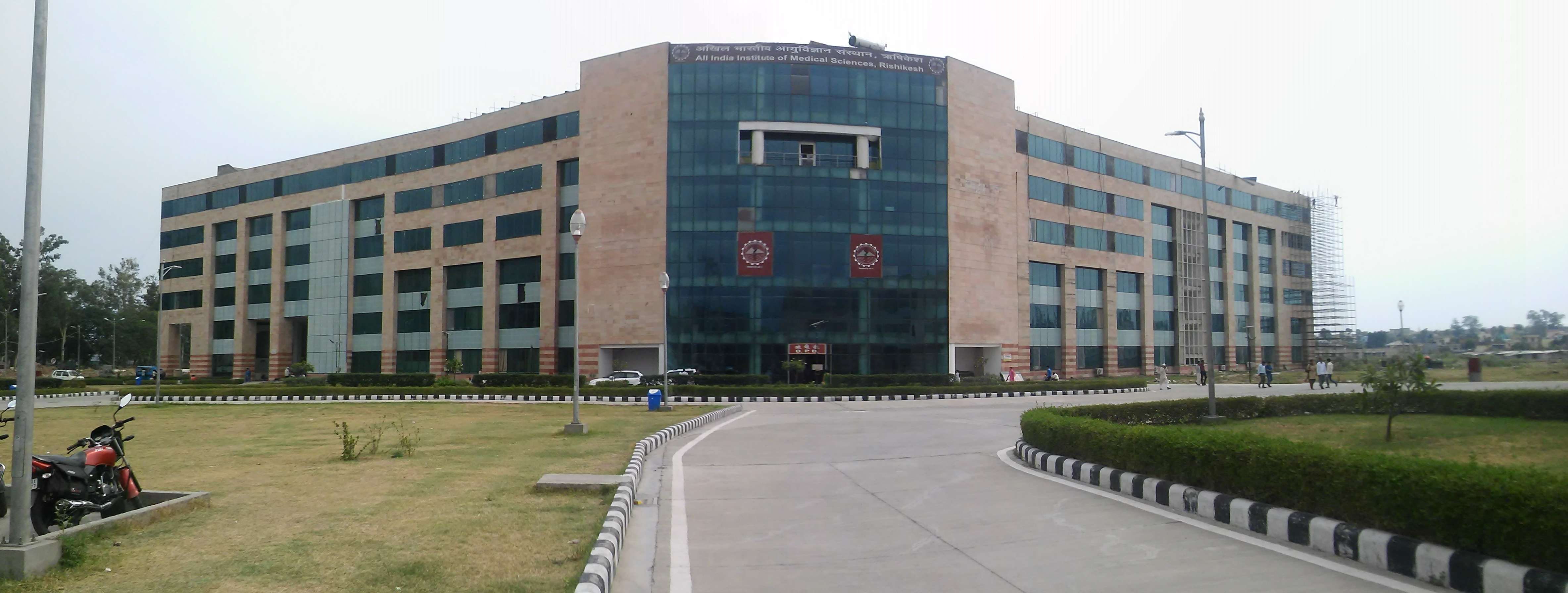 Aiims RISHIKESH Apex medical institute and tertiary center